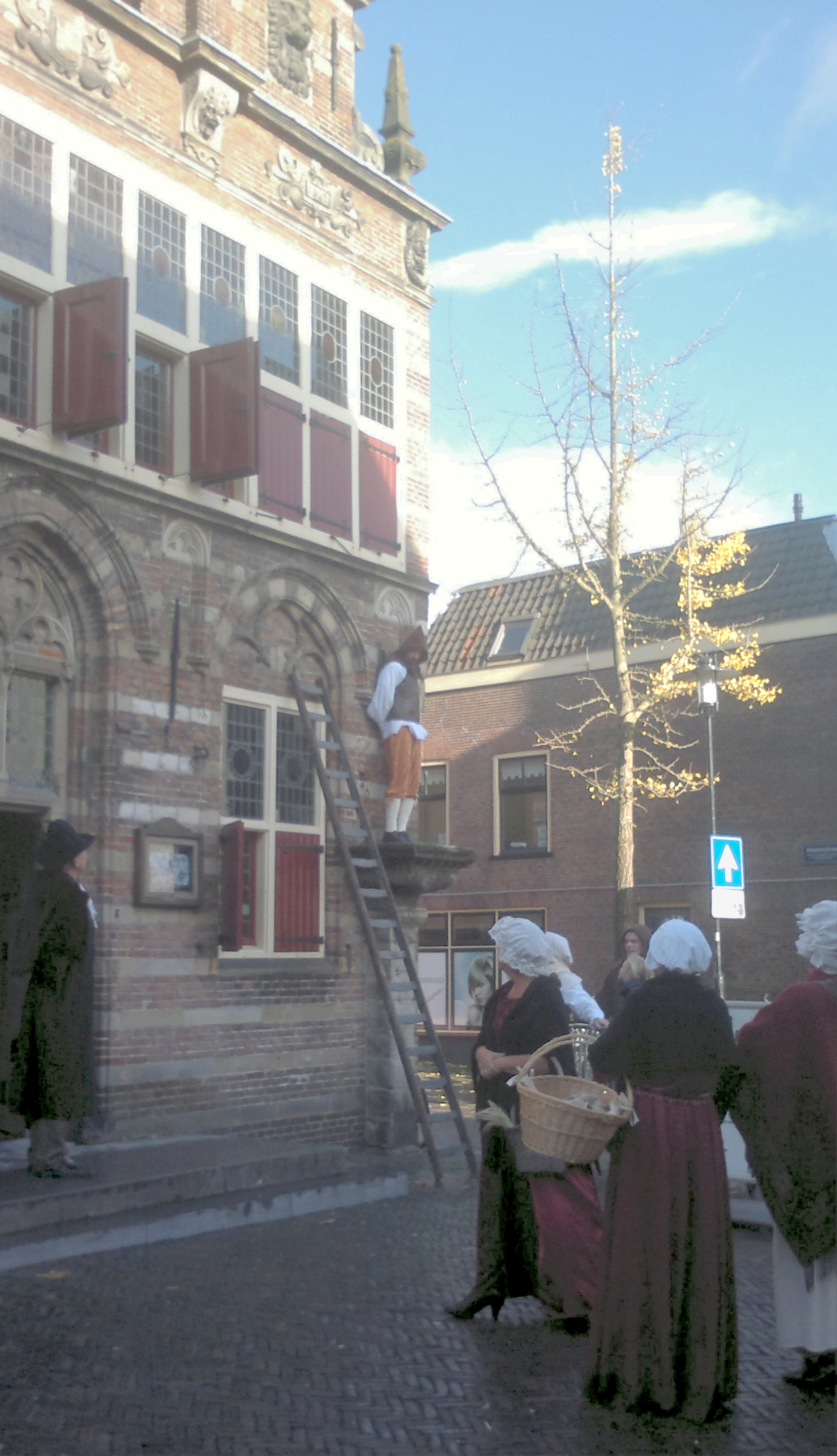 Person on a pillory, Woerden, the Netherlands